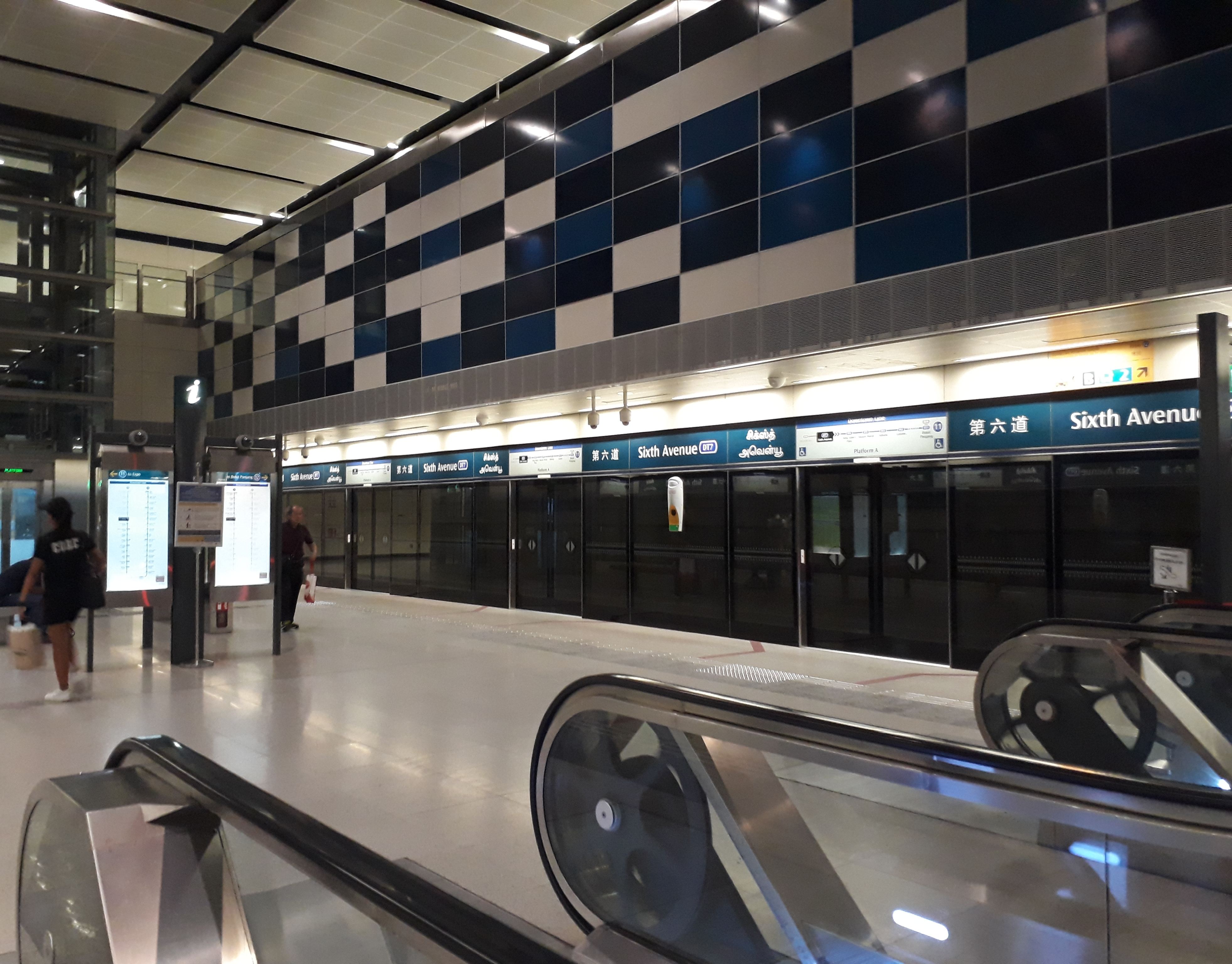 Sixth Avenue Platform Basement